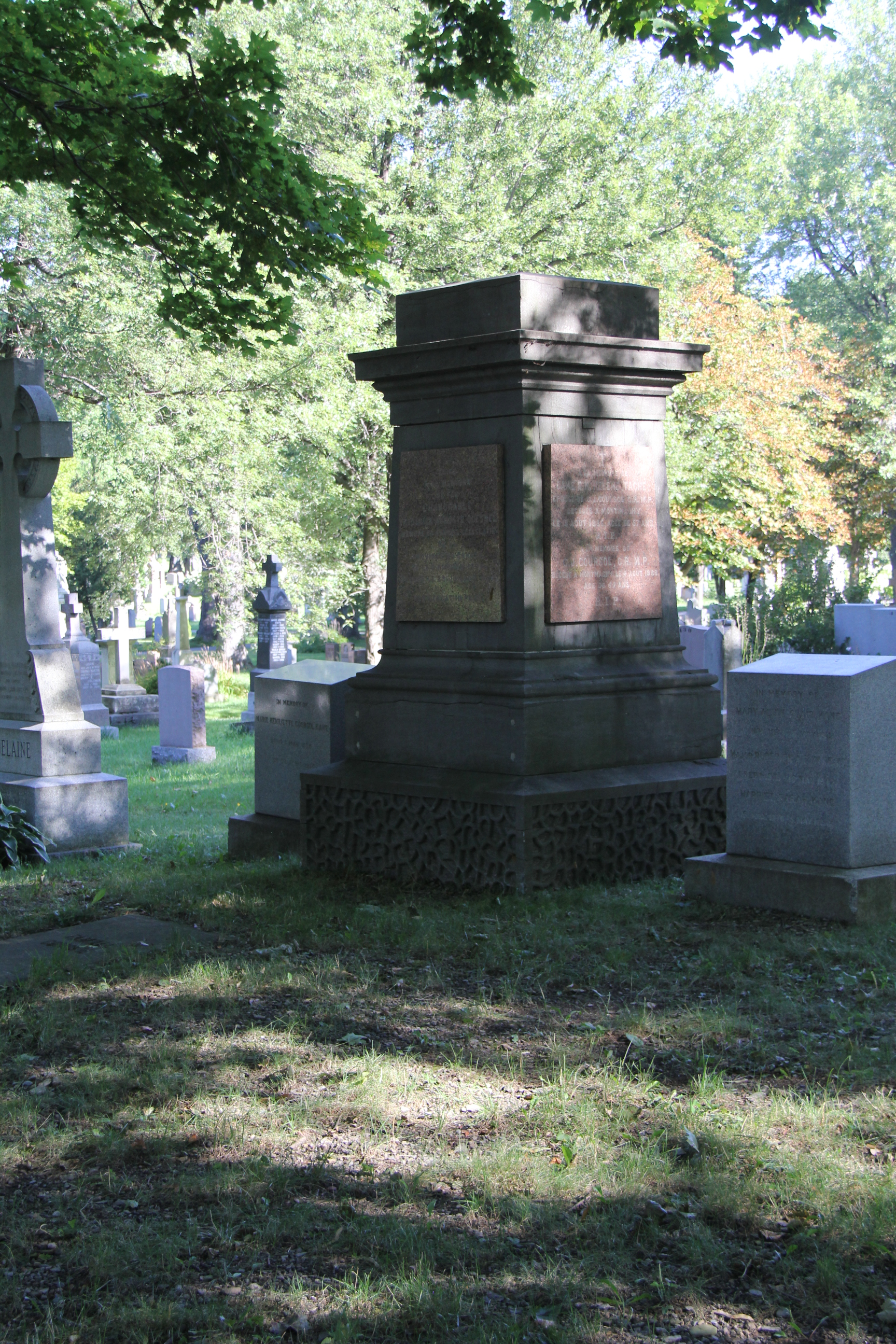 Frédéric-Auguste Quesnel (1785-1866) and his nephew's Charles-Joseph Coursol’s tombstone (1819-1888), Notre-Dame-des-Neiges Cemetery (J3-51), Montreal.